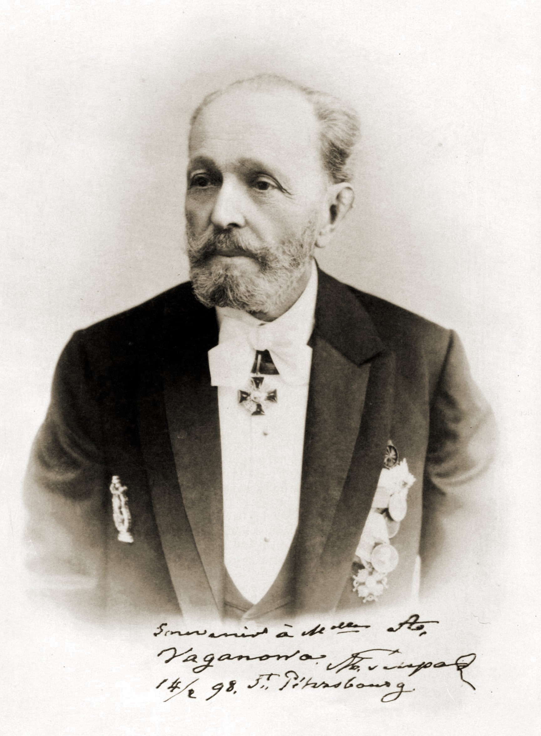 Photo of Marius Petipa